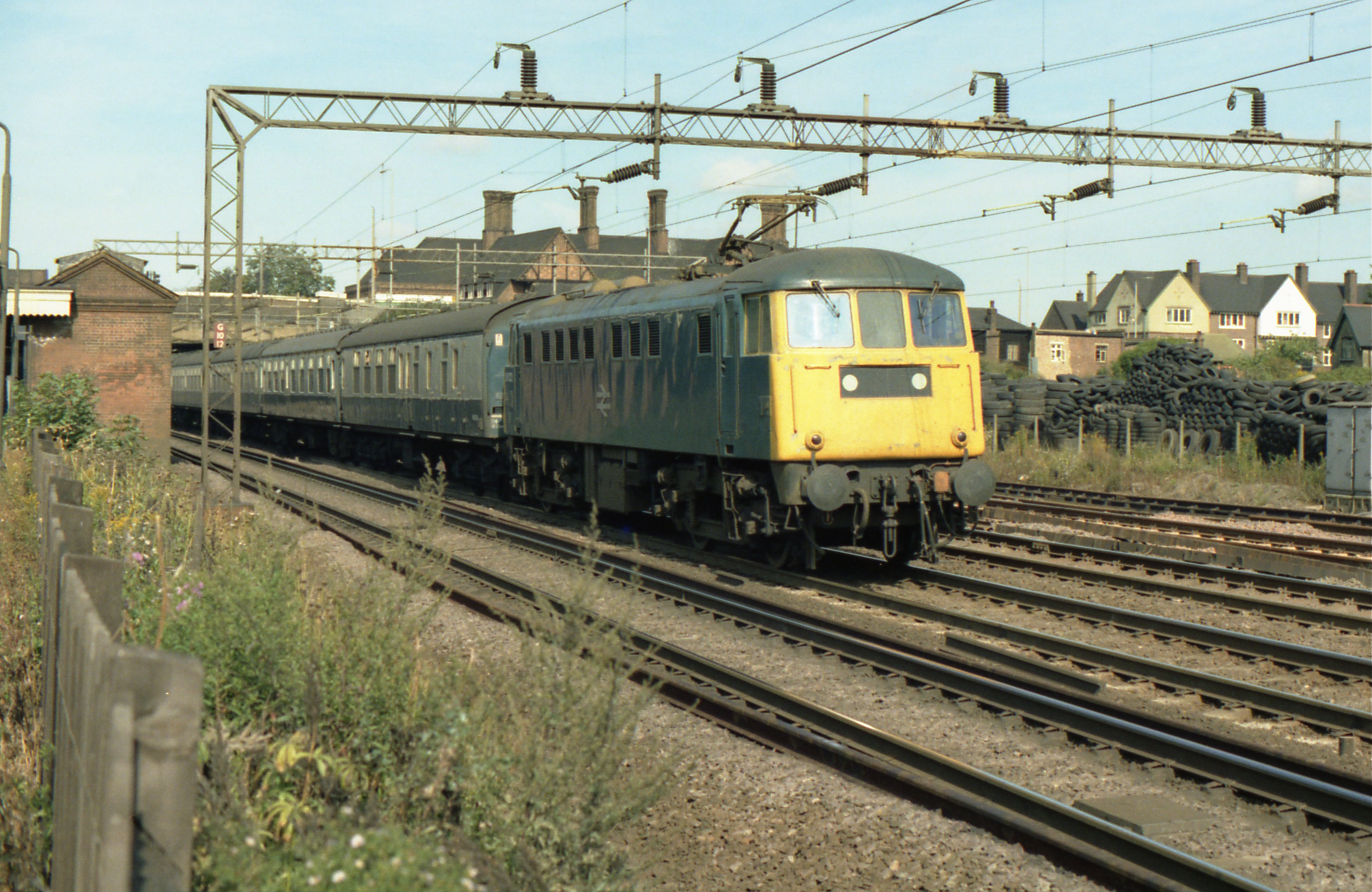 Electric veteran class 81 No. 81 022 on an up main line working on the West Coast main line at Kenton on 15/09/1979. Camera: Olympus OM1 35mm SLR. Film: Fuji.